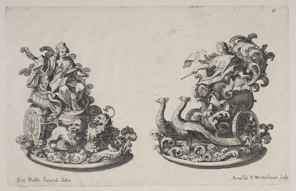 The table sculptures were designed for the banquet given by British Ambassador Roger Palmer, Earl of Castlemaine, in Rome on January 14, 1687. The goddesses are personifications of Earth and Air in an allegorical composition on the Four Elements, which also included sculptures of Vulcan and Neptune. Captions/inscriptions: II--in upper right. Gio. Batta. Lenardi delin.--in lower left. Arnoldo V. Westerhout. Sculp.--in lower right.